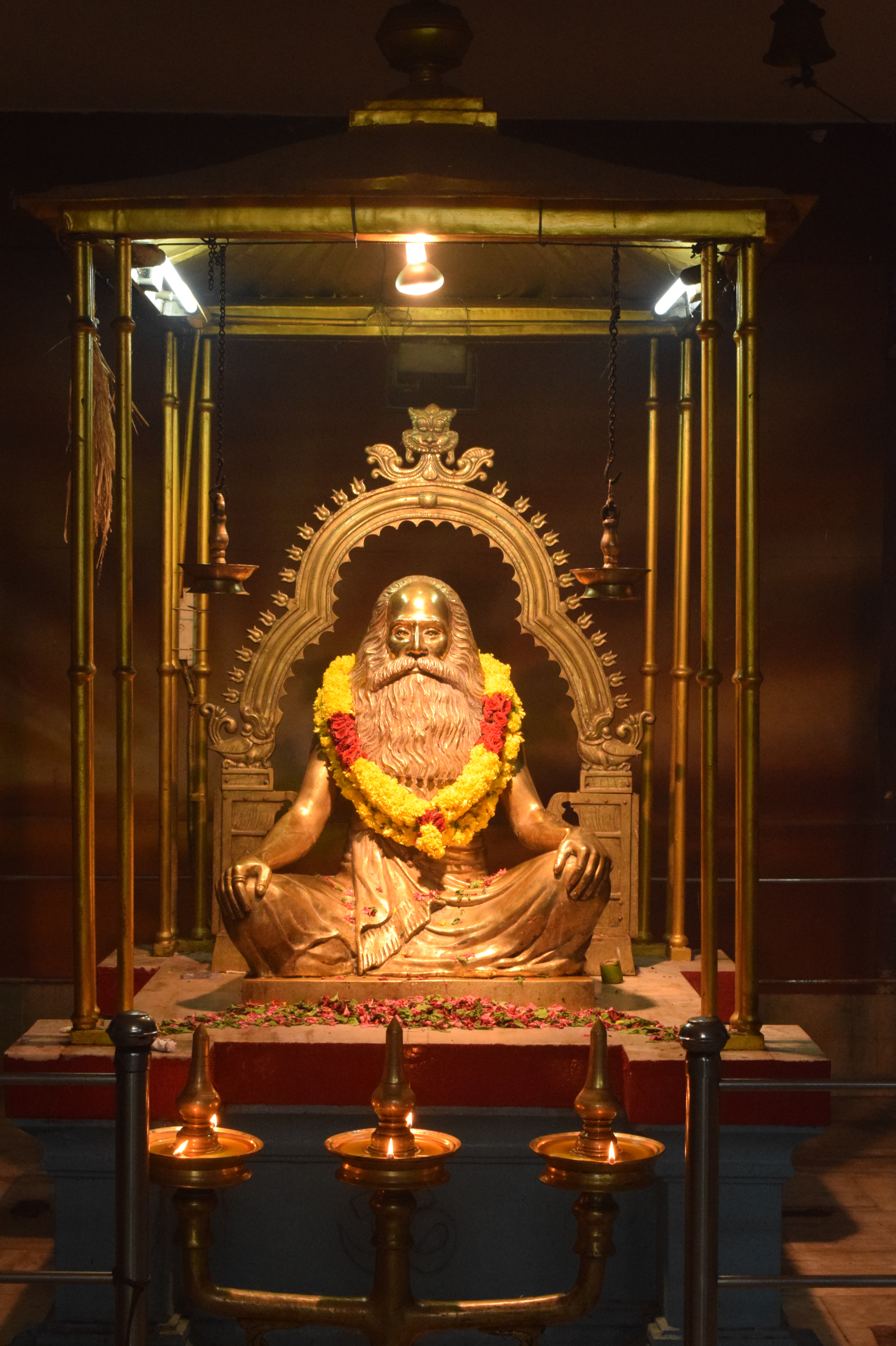 Statue of chattampi swamikal at attukal temple